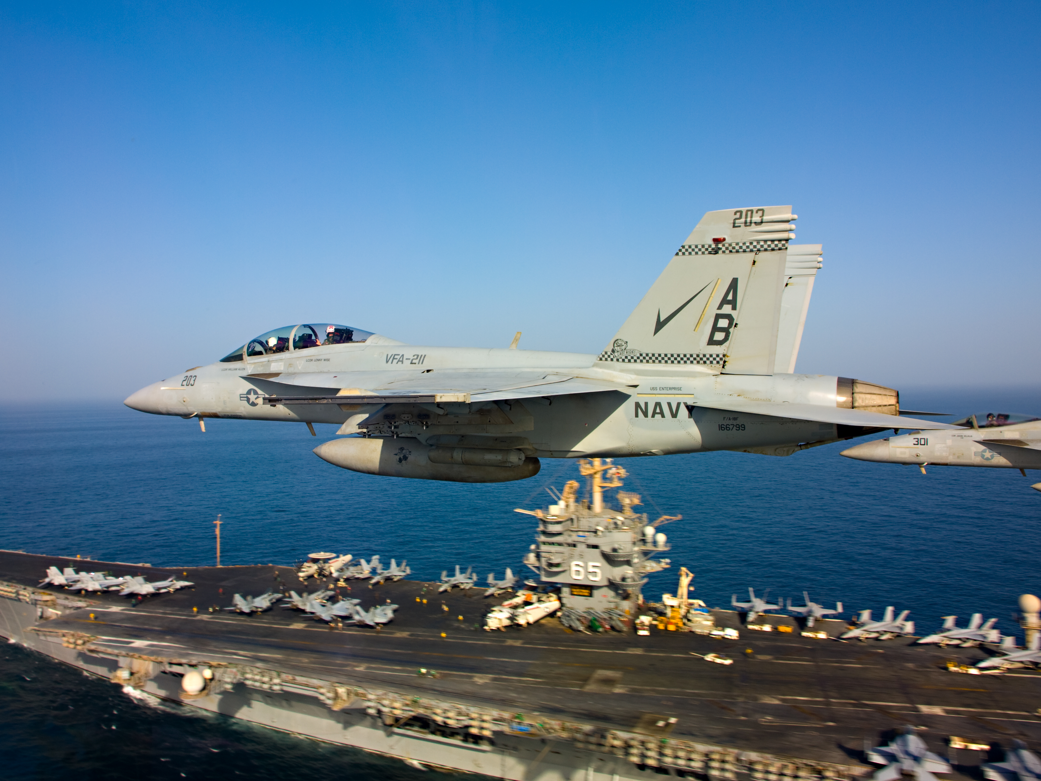 ARABIAN SEA (Oct. 4, 2012) Two F/A-18 Super Hornets fly above the aircraft carrier USS Enterprise (CVN 65). Enterprise is deployed to the U.S. 5th Fleet area of responsibility conducting maritime security operations, theater security cooperation efforts and support missions for Operation Enduring Freedom. America's Sailors are Warfighters, a fast and flexible force deployed worldwide. Join the conversation on social media using #warfighting. (U.S. Navy photo by Lt. Cmdr. Josh Hammond/Released) 121004-N-ZZ999-016 Join the conversation navylive.dodlive.mil